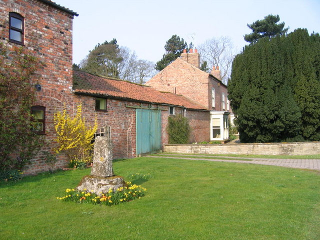 Remains of Cross Remains of a 15thC Wayside Cross which was moved to this location in the late 19thC when the road south of the hamlet was improved.